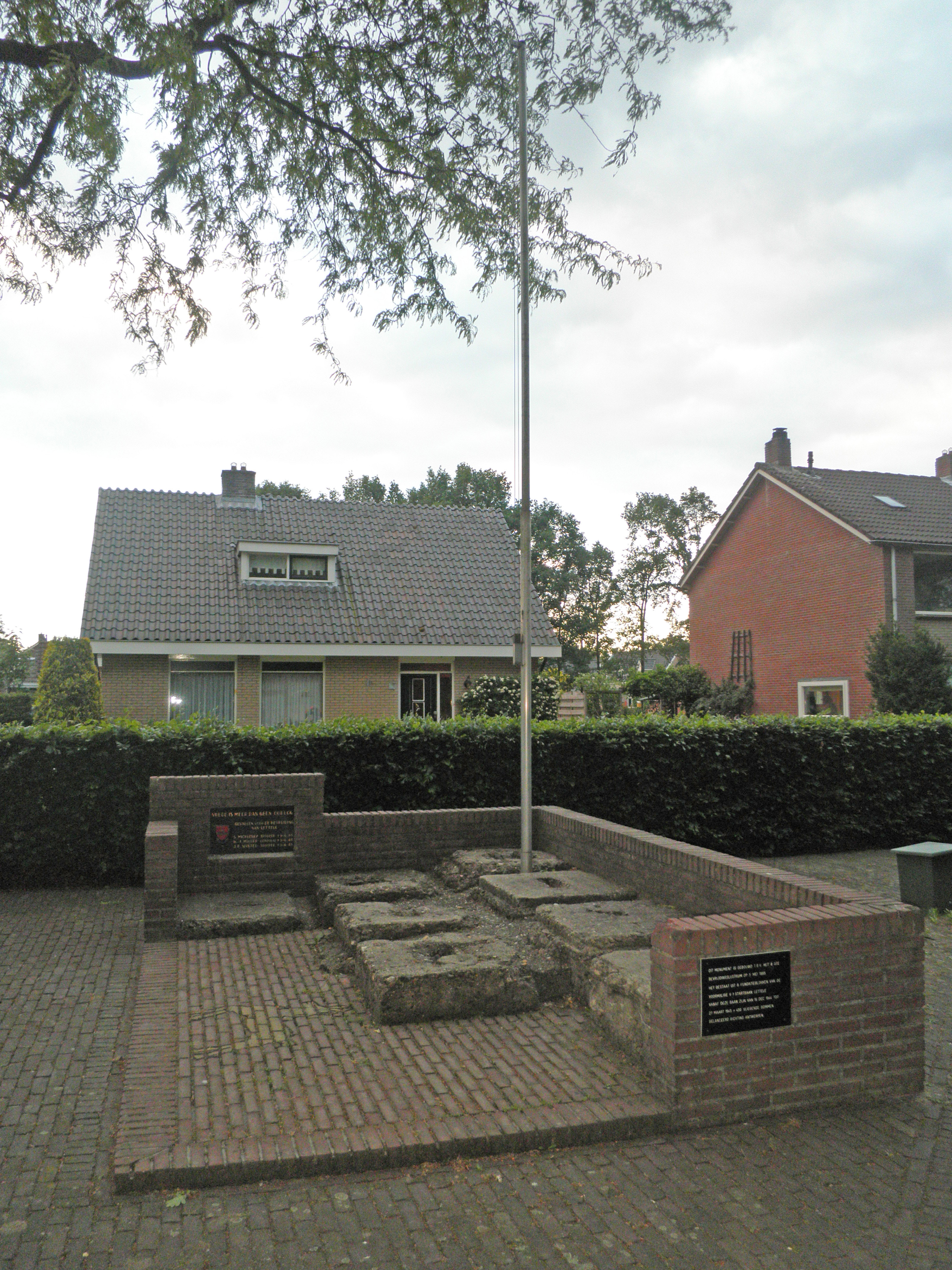 War memorial in Lettele, the Netherlands, made partly from concrete remains of a German launching pad for V1 rockets near the village.